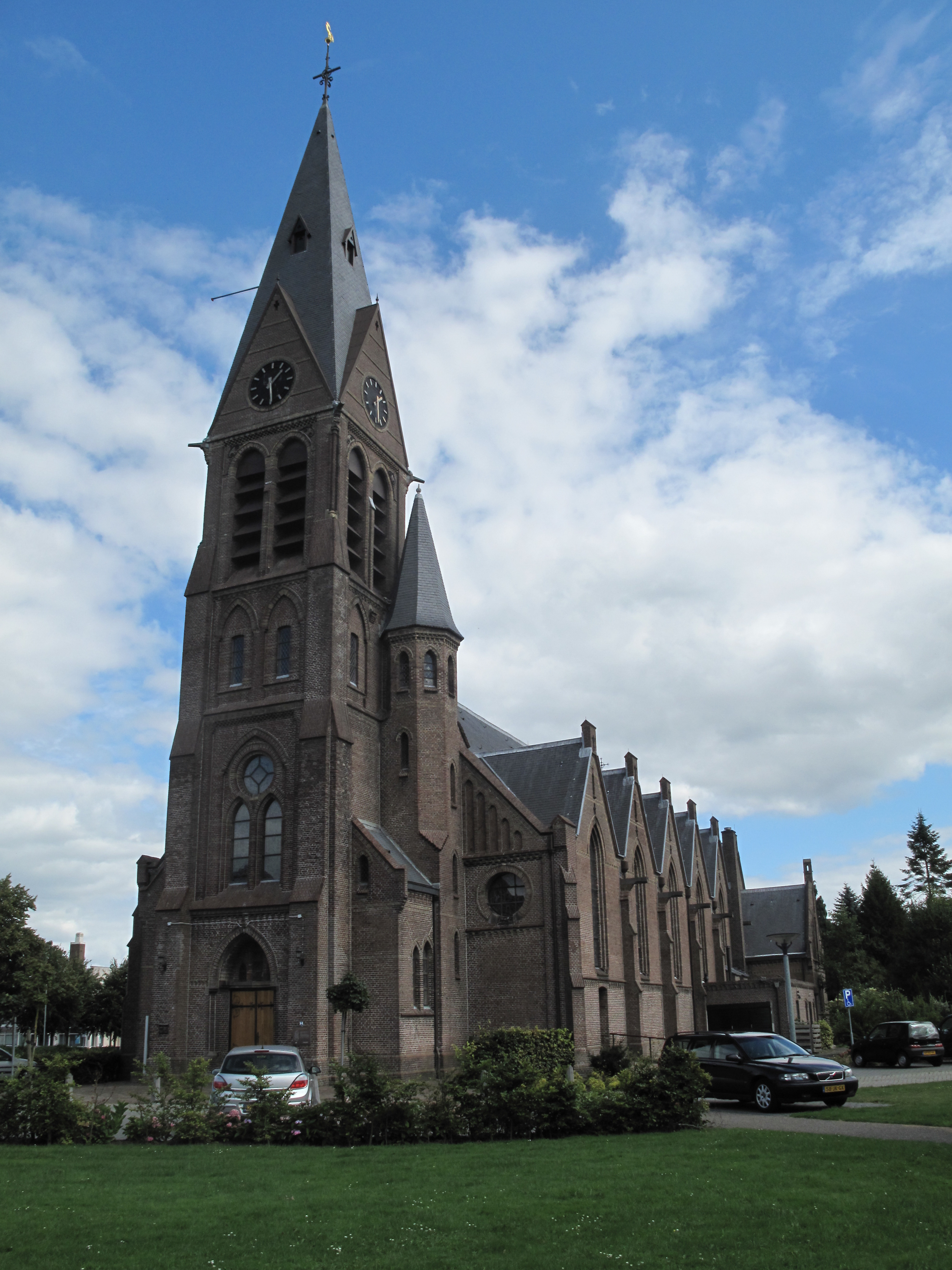 Sappemeer, church: de Sint Willibrorduskerk